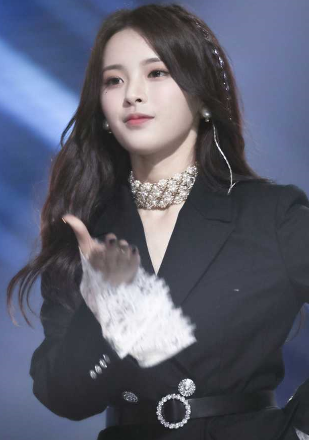 Yang Chaoyue in Produce 101 China final, performing the song . Photo taken from the crowd.